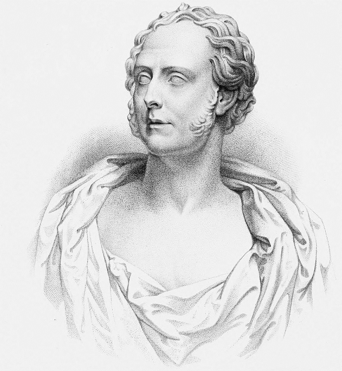 Sir Archibald Alison, 1st Baronet